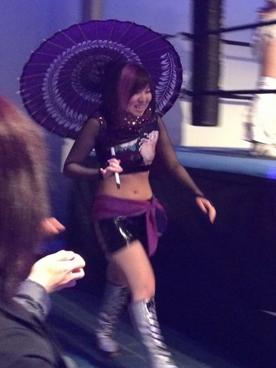 Japanese professional wrestler Chikage Kiba in April 2014.